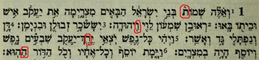 Book of Exodus 1:1-6 with Bible code